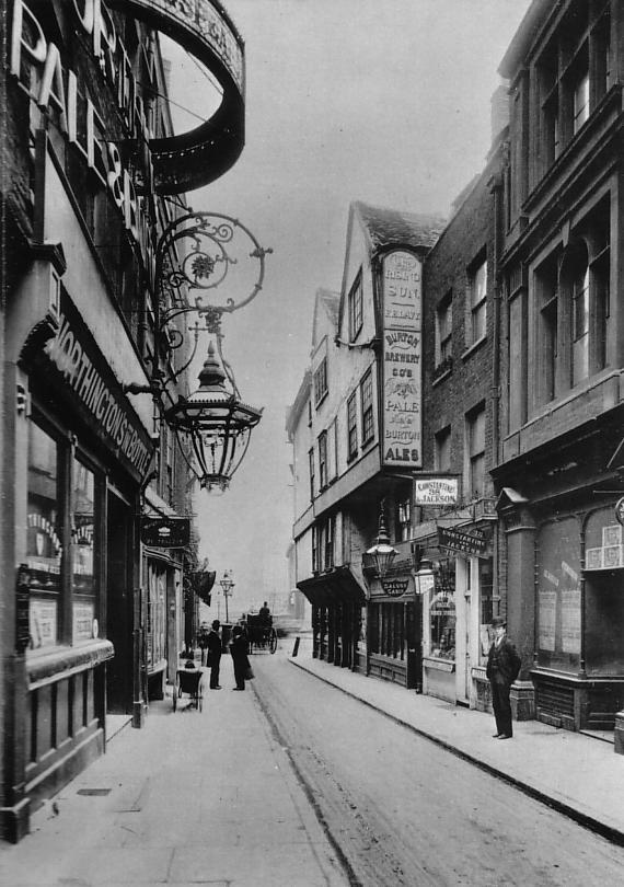 A postcard image of Wych Street, London U.K. published in 1901.